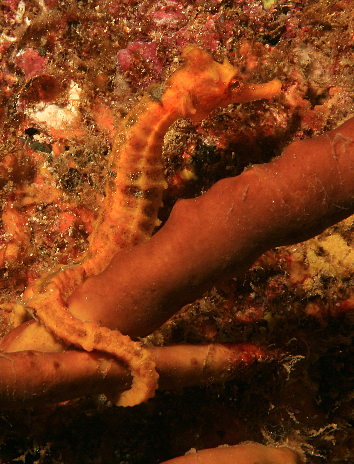 This Pacific Seahorse (Hippocampus ingens) was keeping its face hidden behind that brown sponge. The photos did not look good that way, so I nudged the sponge a few time to get this shy beauty to show itself a little bit better. This is about the best "we" could do. Shot at Iglesia (Church) dive site in the Coiba National Park, Panama.